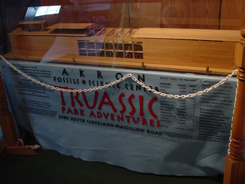 Akron Fossils and Science Center|, Akron, Ohio: The Noah's ark model, on display in the museum section of the center.